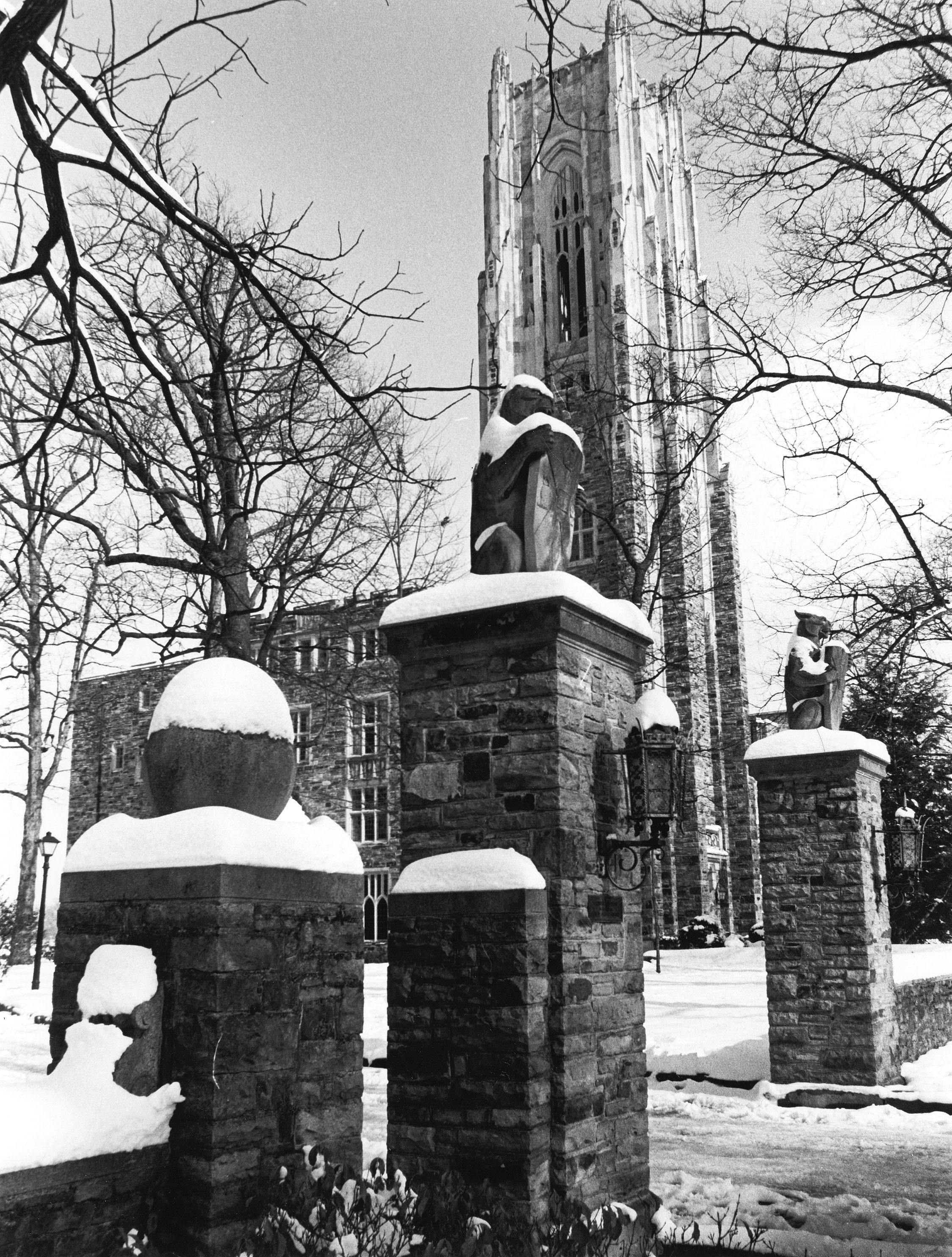 Halliburton Tower in the snow with the college's lynx statutes standing guard